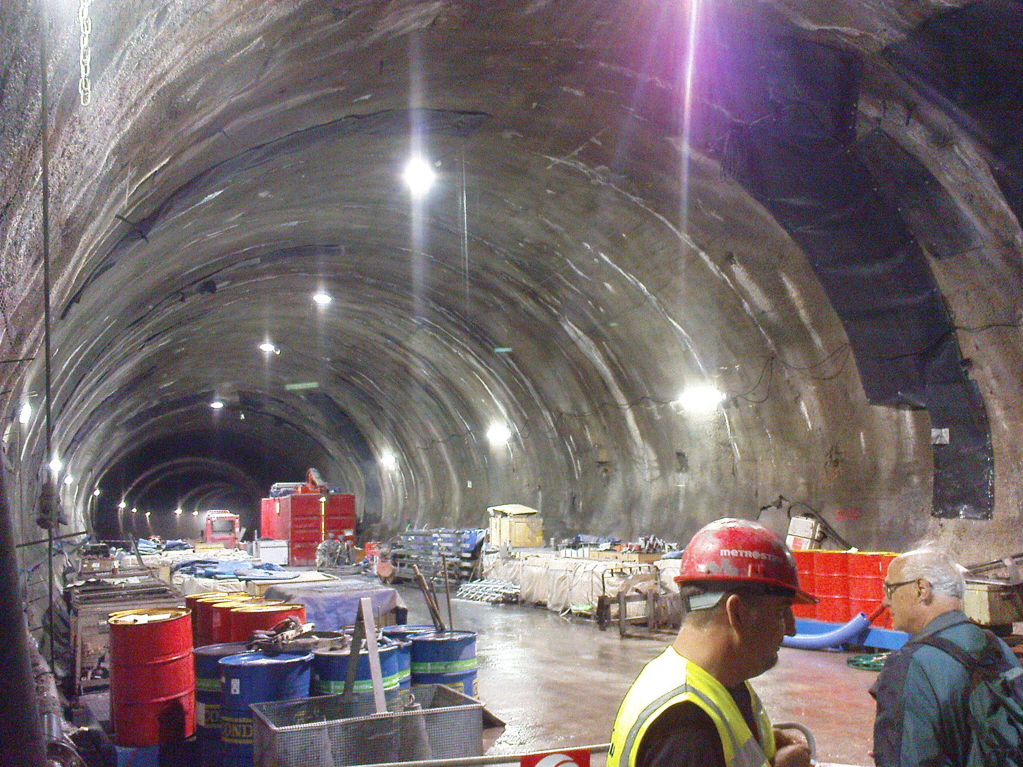 Subway tunnel in Vypich - prolongation of line C (marked as V.A), Prague (18.06.2011). From Dejvicka to Vypich is there one big tunnel (pictured); from Vypich to Ruzyne the line goes on in two small tunnels.